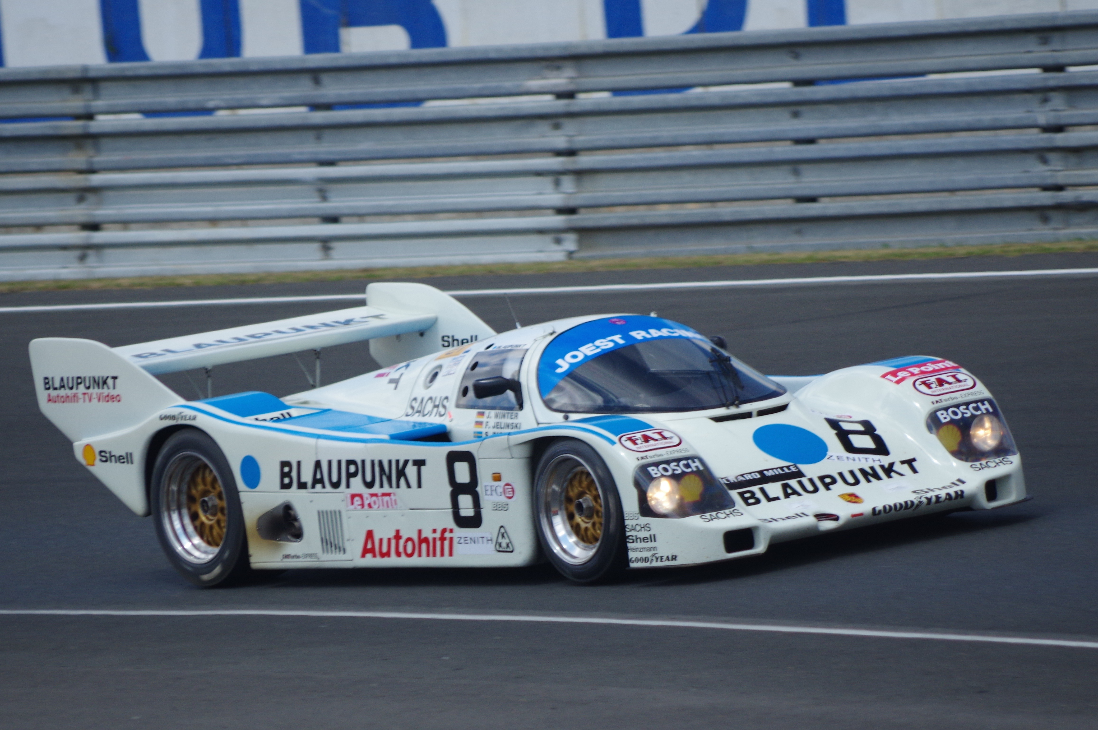 1987 Joest Racing's Porsche 962C at Le Mans Classic 2016